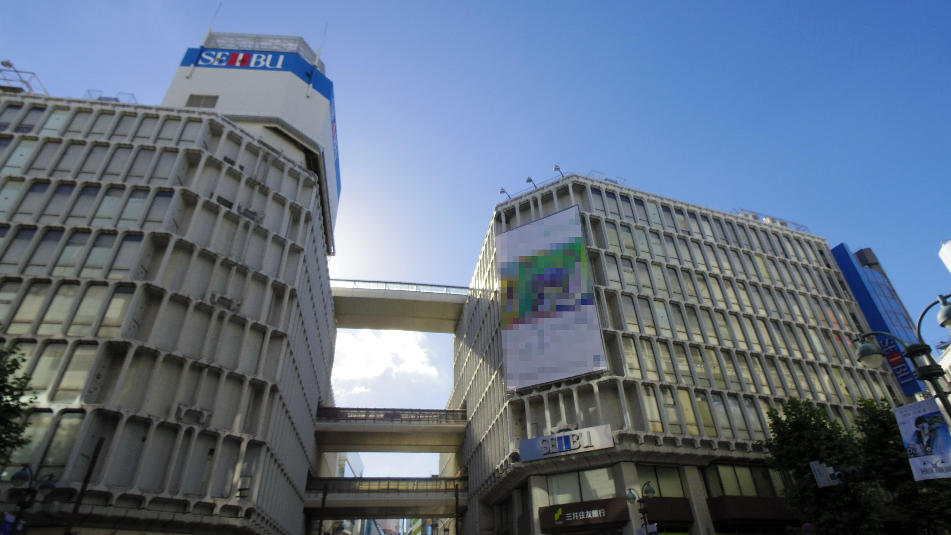 Seibu Shibuya Store.